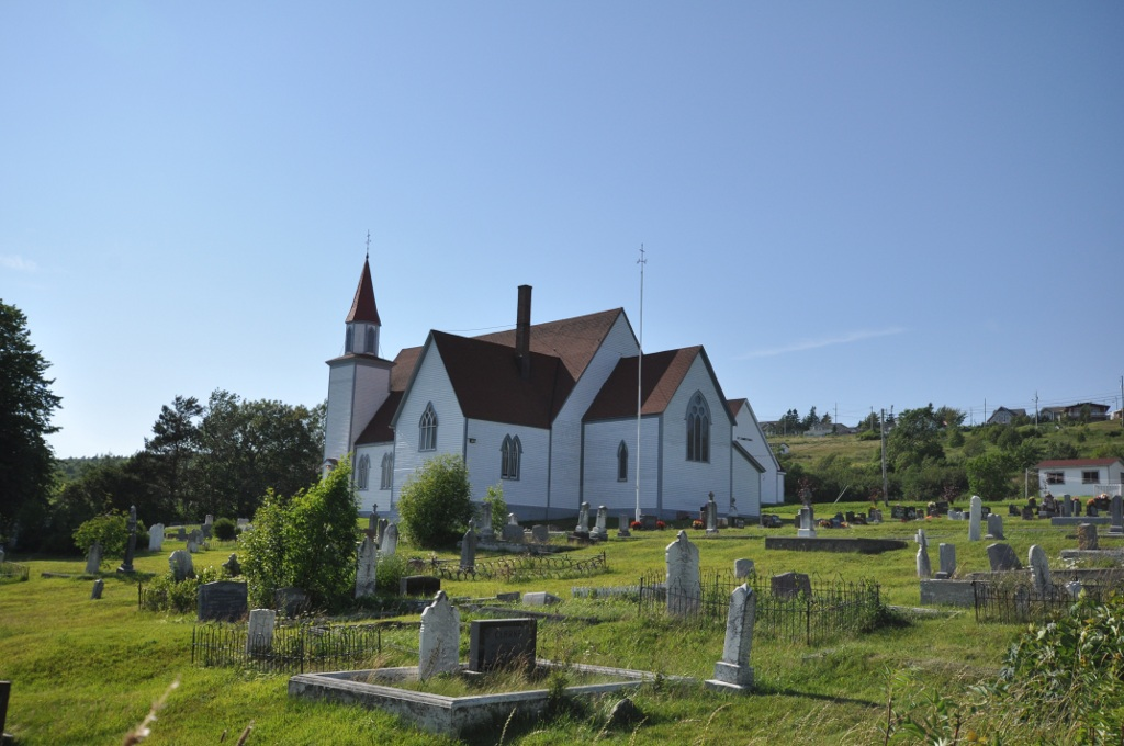 St. James Anglican Church Registered Heritage Structure, Carbonear, Newfoundland.